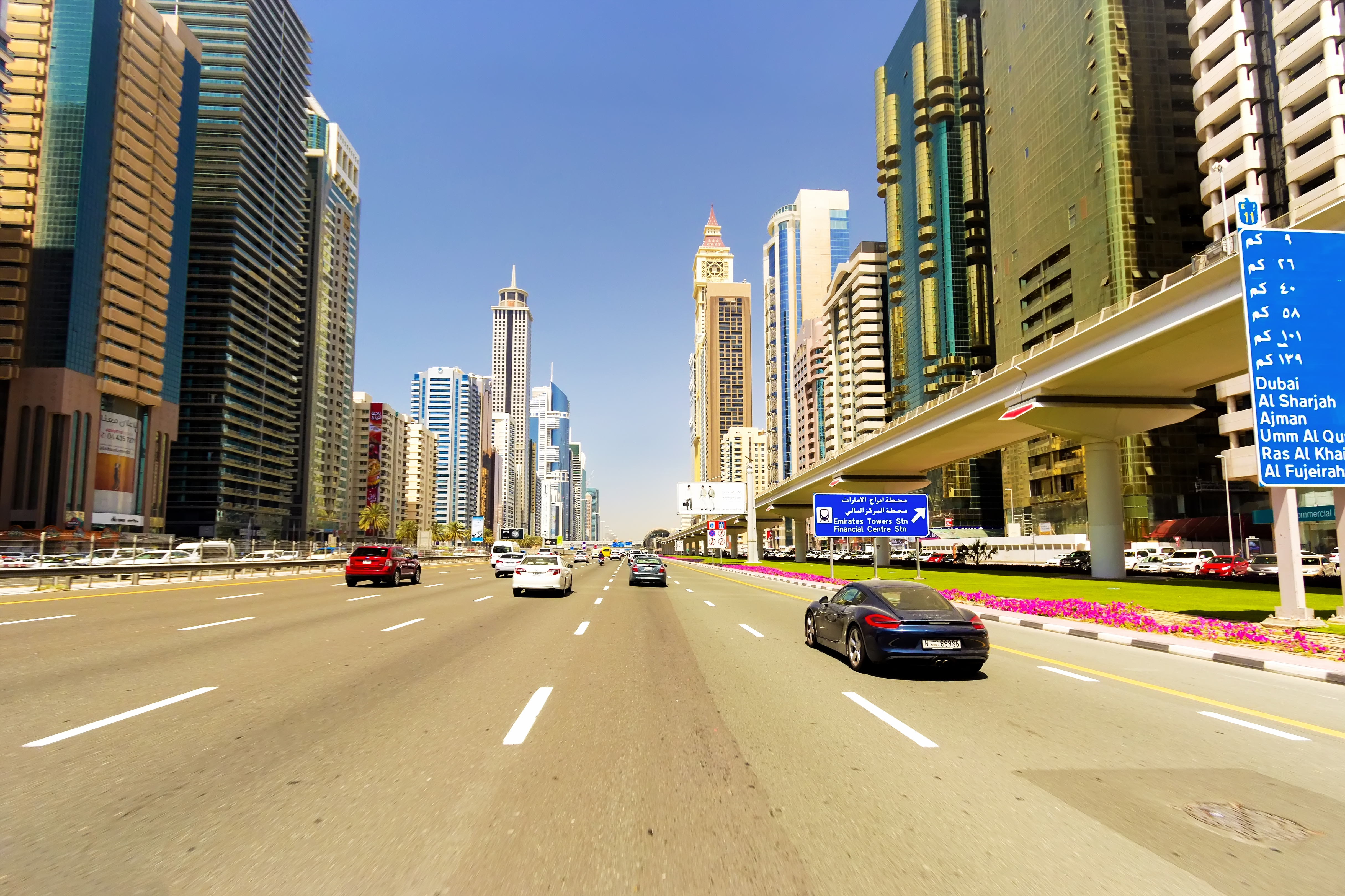 Dubai (/duːˈbaɪ/ doo-by; Arabic: دبي Dubayy, Gulf pronunciation: [dʊˈbɑj]) is the most populous city in the United Arab Emirates (UAE). It is located on the southeast coast of the Persian Gulf and is one of the seven emirates that make up the country. Abu Dhabi and Dubai are the only two emirates to have veto power over critical matters of national importance in the country's legislature. The city of Dubai is located on the emirate's northern coastline and heads up the Dubai-Sharjah-Ajman metropolitan area. Dubai is to host World Expo 2020. ( Source : Wiki )